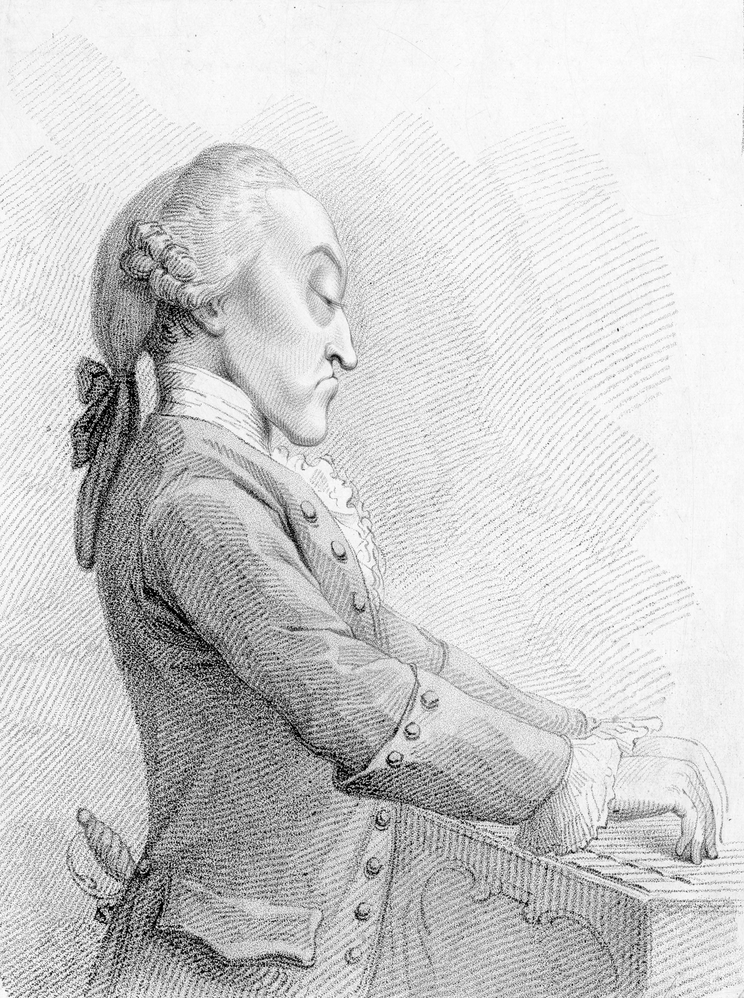 Depicted person: Thomas Augustine Arne